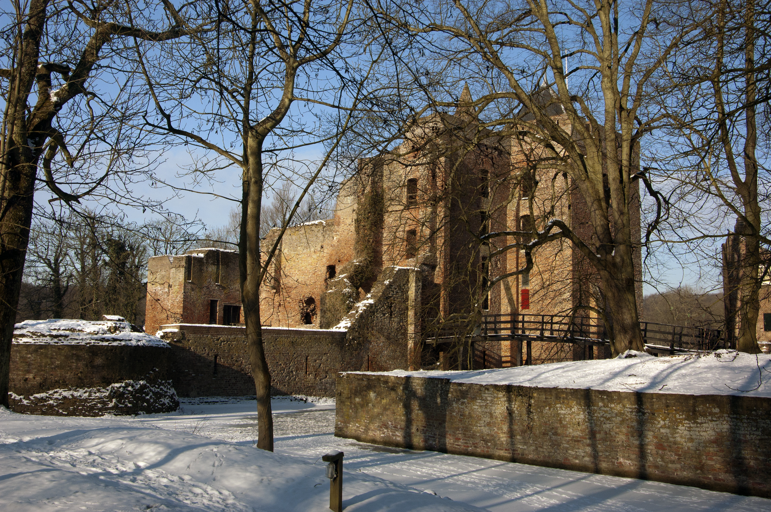 Ruin of Kasteel Brederode, Santpoort, The Netherlands